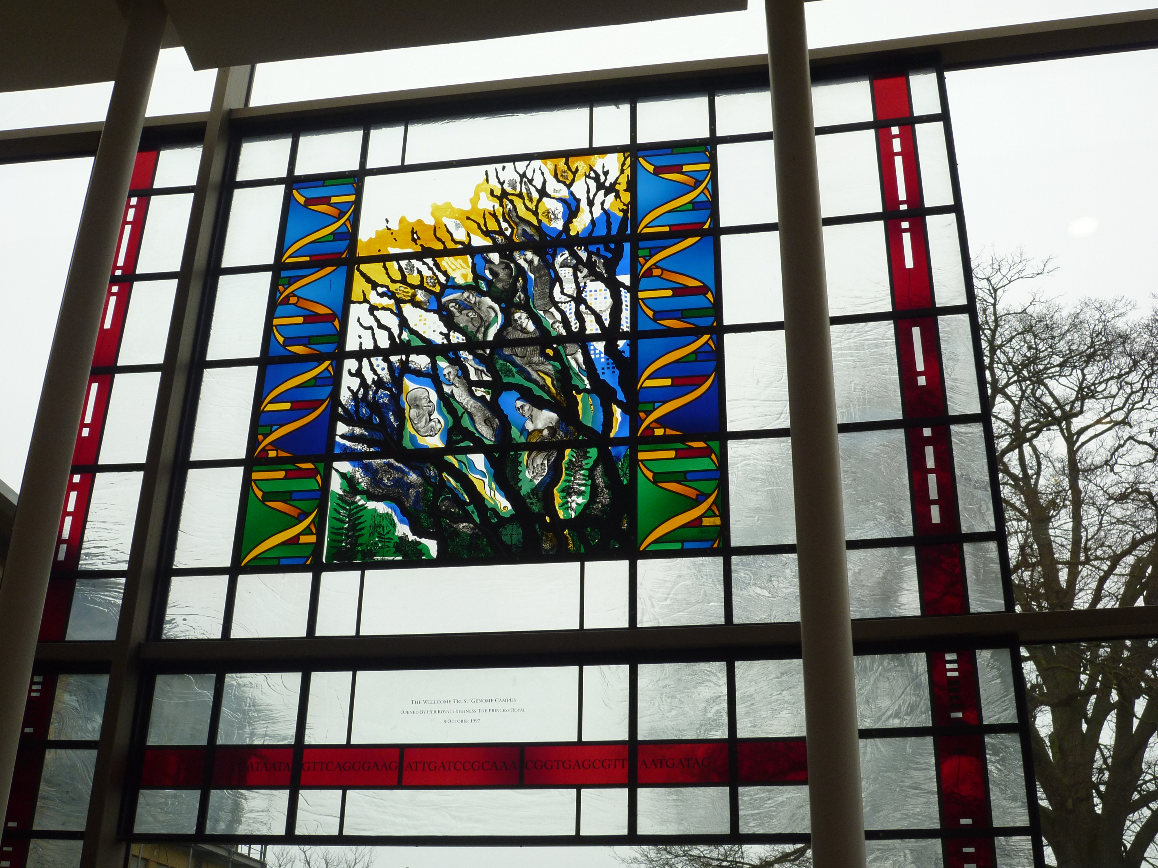 Commemorative stain glass window located in the Sulston Building of the Wellcome Trust Sanger Institute, to mark the opening of the Wellcome Trust Genome Campus in 1997. Designed by Kathy Shaw.